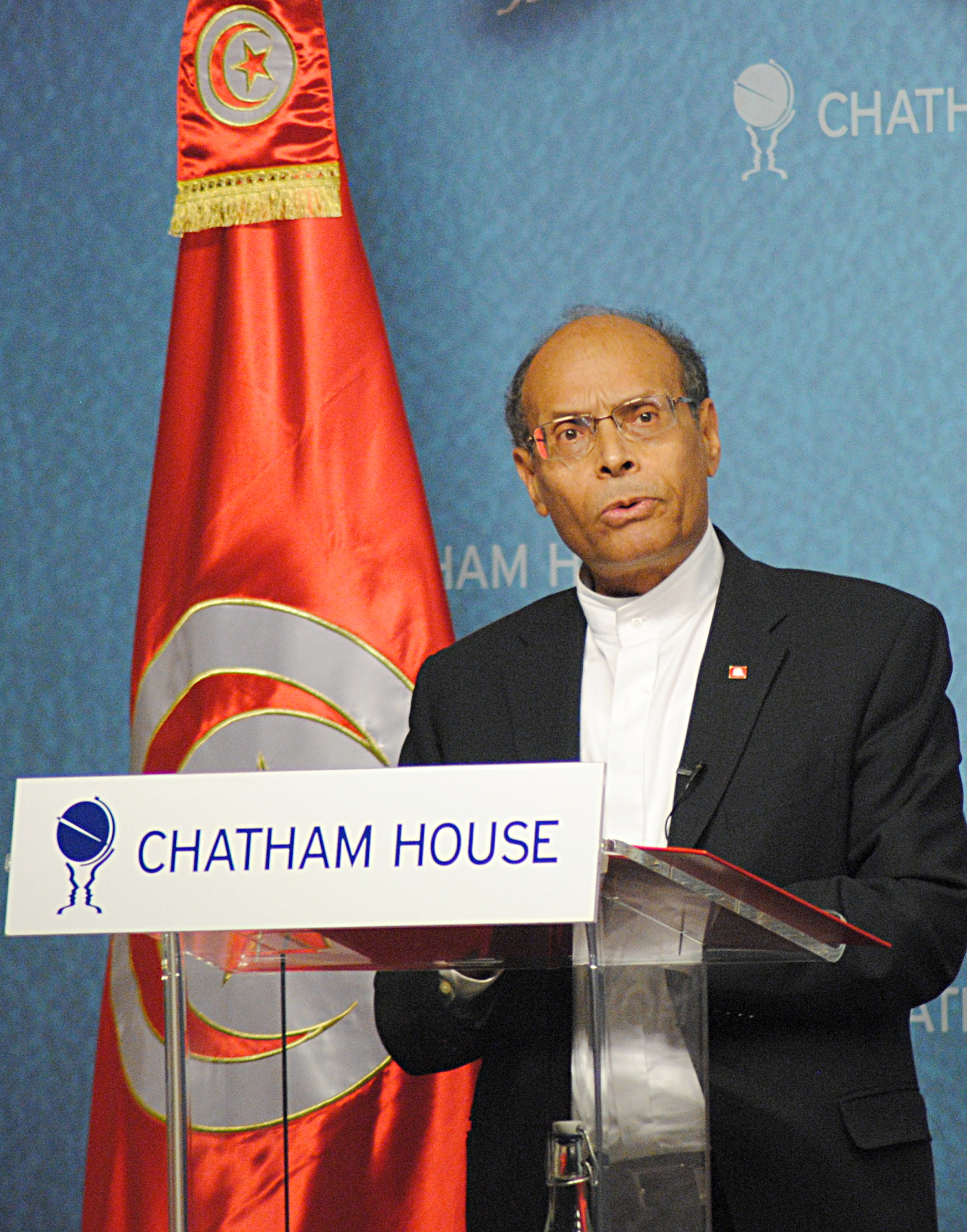 Moncef Marzouki speaking after receiving the Chatham House award 2012 This file has been extracted from another file: Moncef Marzouki, Chatham House.jpg